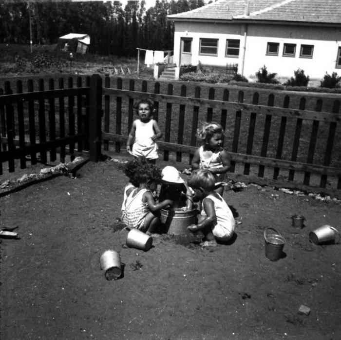 Ein Hahoresh, Education in Israel